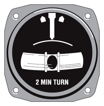 Figure 3-32. The turn-and-slip indicator.